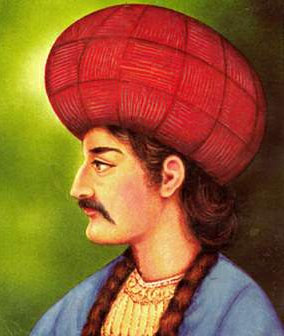 Shah İsmail Hatayi This is a coloured reproduction of an original two-dimensional work of art. The work of art itself is a medieval European rendering by an unknown Venetian artist and the original is kept in the Uffizi Gallery museum.